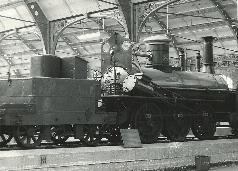 Original description reads "Hackworth 0-6-0 No.25 "Derwent" (with a tender each end) built in 1845 by W & A. Kitching for the Stockton & Darlington Railway. It passed to the North Eastern Railway in 1863 and when withdrawn in 1869 and was sold to Pease & Partners for construction of the Waskerley Resevoir. The NER bought it for preservation in 1898 and it was eventually put on display in Darlington Station, where this (scanned) photograph was taken with a Kowa SET in 07/72."